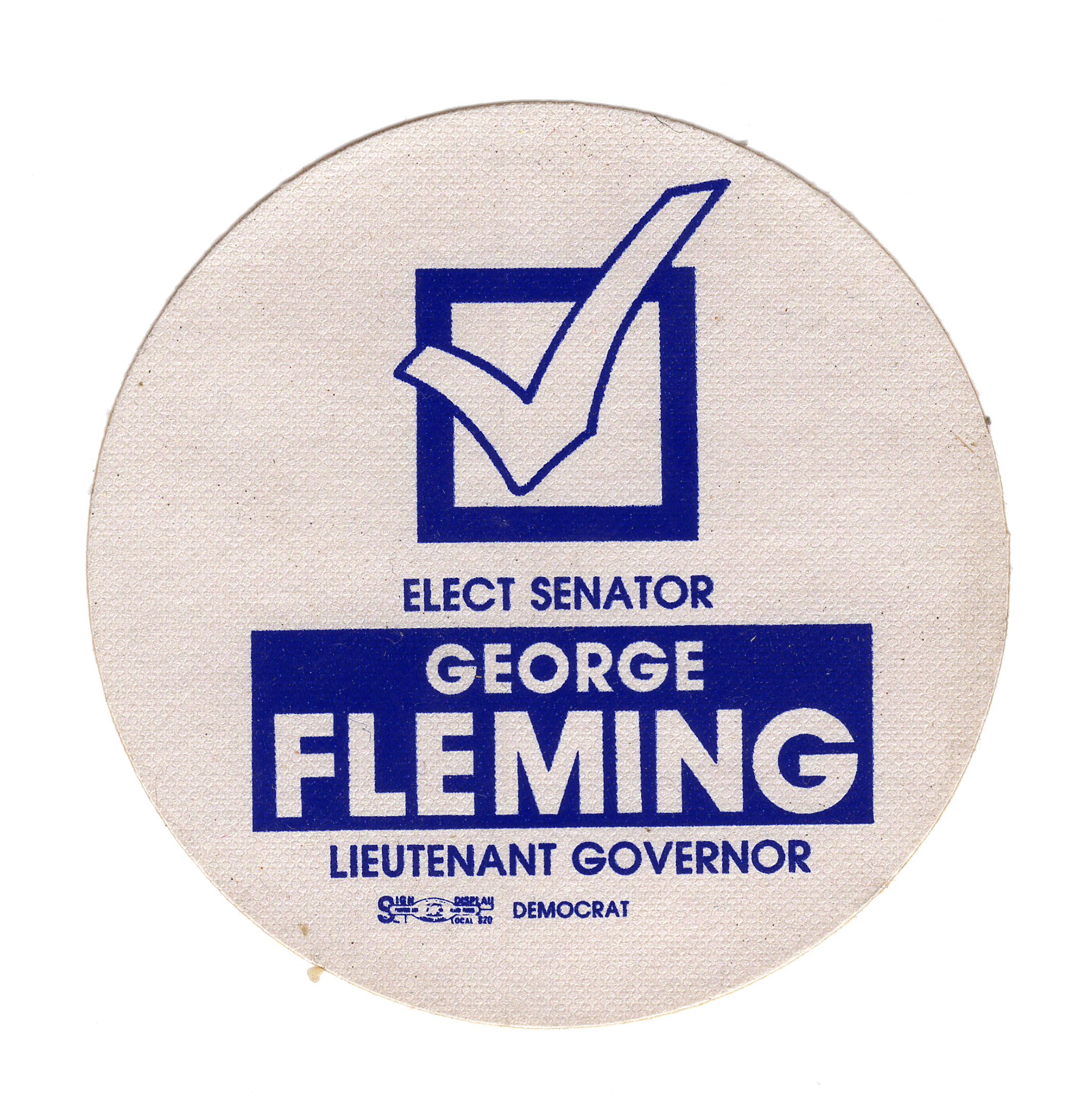 1988 political campaign sticker, Washington (state)